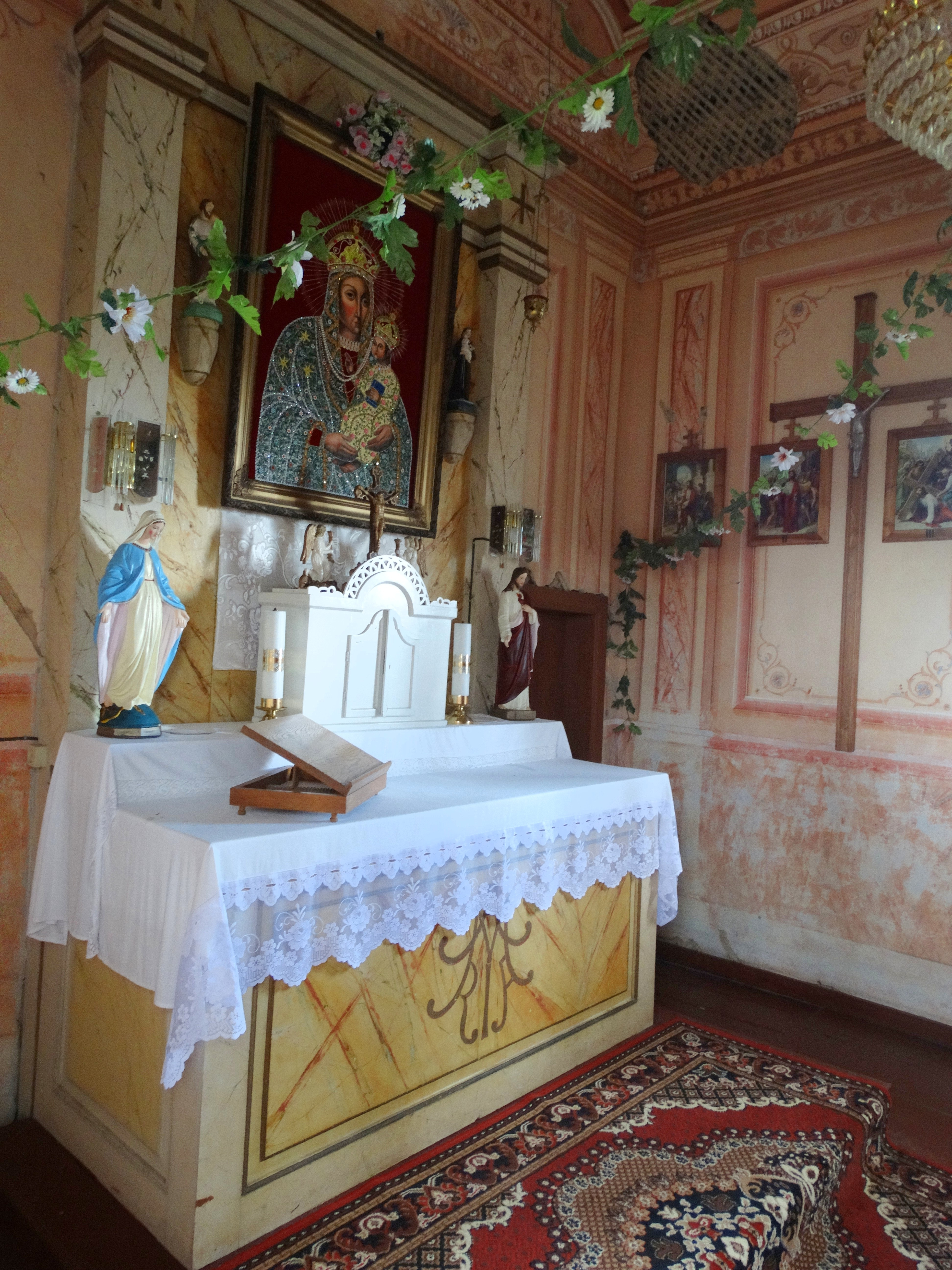 Chapel, Sangėliškės, Šalčininkai District, Lithuania